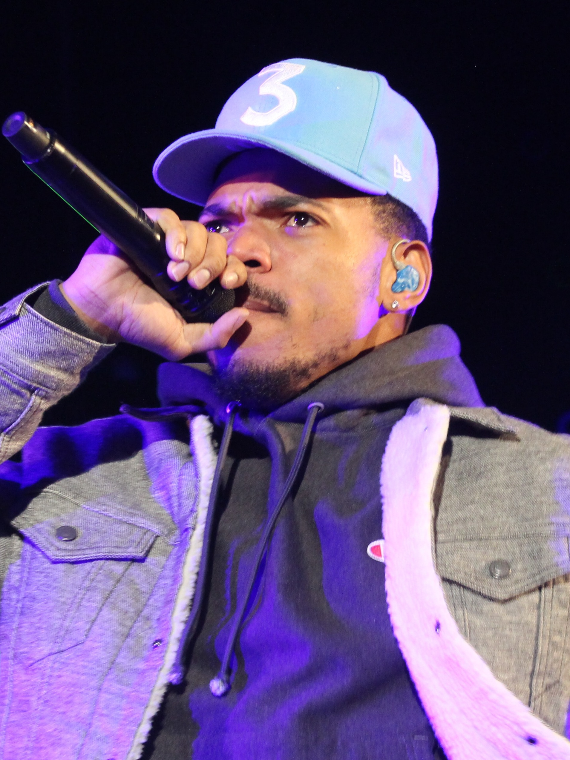 Chance the Rapper ::: Red Rocks ::: 05.02.17